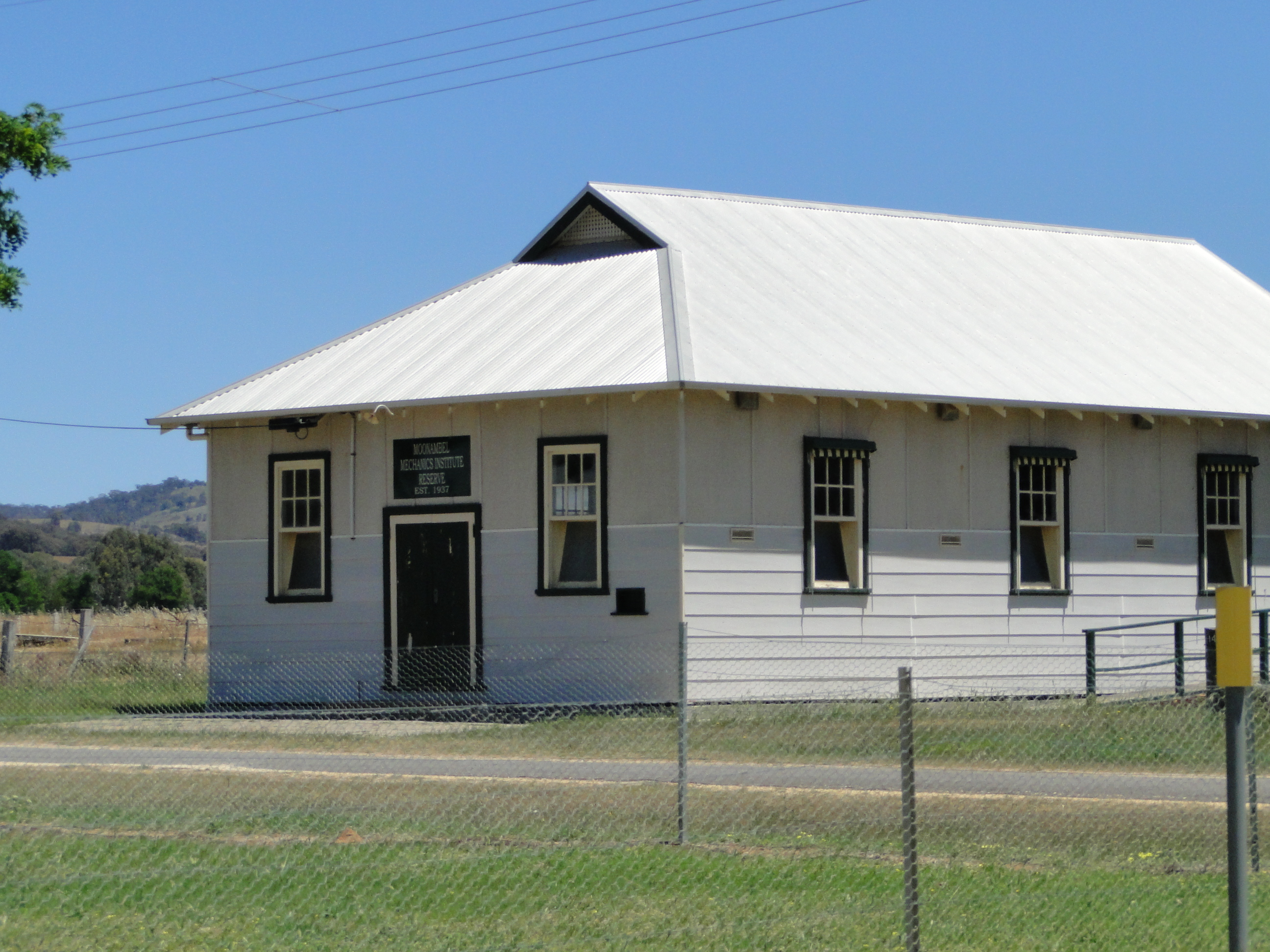 The Mechanics Institute in Woods Street, Moonambel, Victoria, Australia